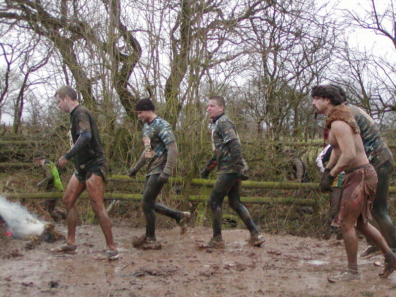 Guys in the mud - in a Tough Guy event. A free image created by user:A-punkt in the german wikipedia.